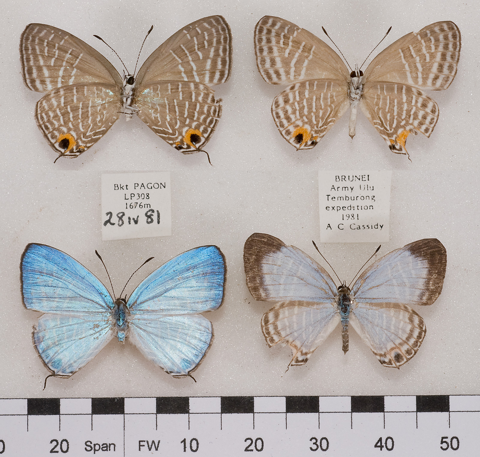 Jamides virgulatus virgulatus, male, female, set specimens, Brunei, Alan Cassidy photo.